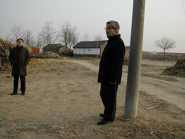 Nobel Prize writer Mr.Oe kenzaburo during his stay in Mr. Mo Yan's village Shandong China. The photo was taken by the interpreter (also the author of this photo) for them during the trip.